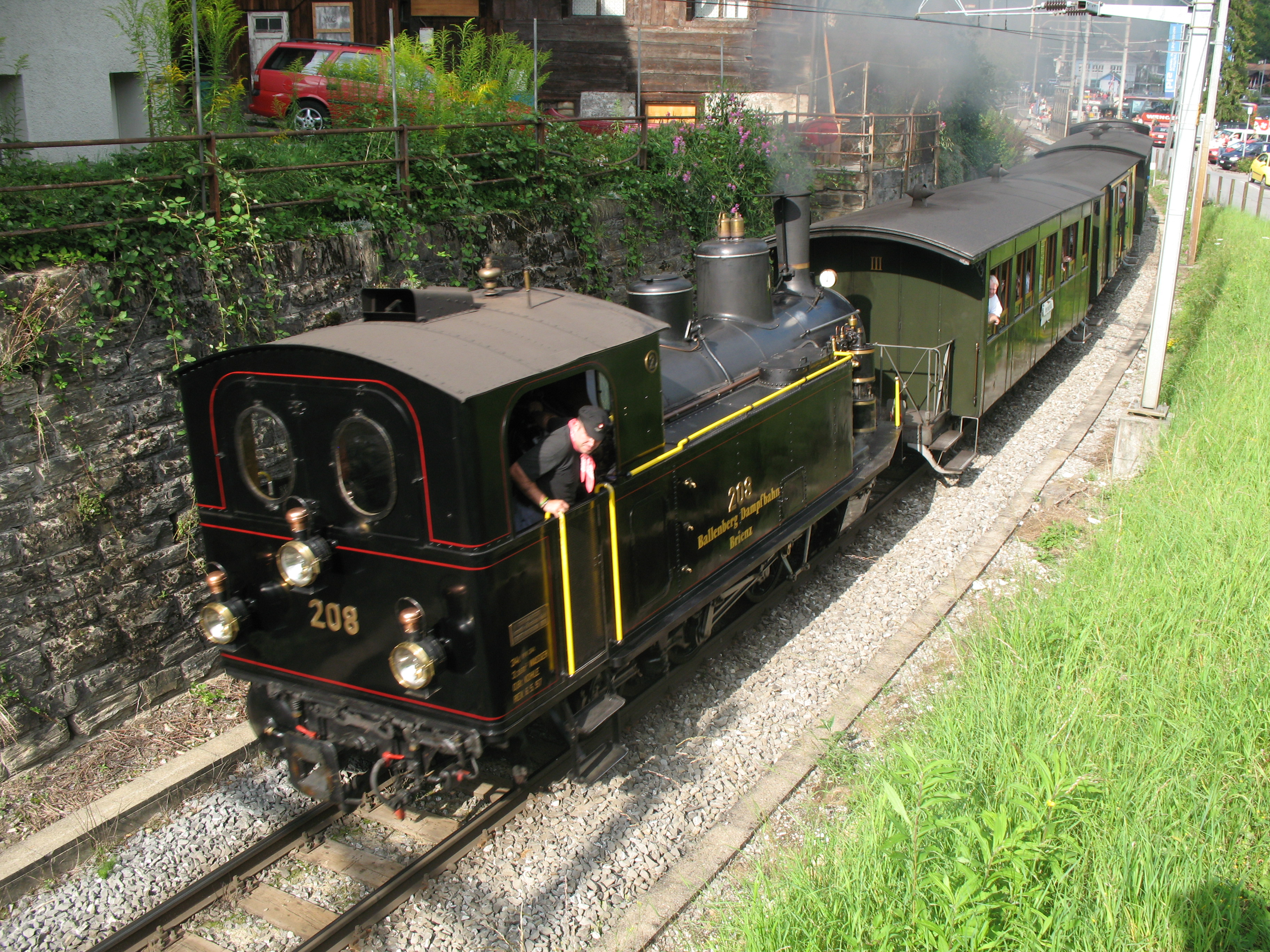 Ballenberg Dampfbahn Brienz (BDB) 208, Brienz, Switzerland